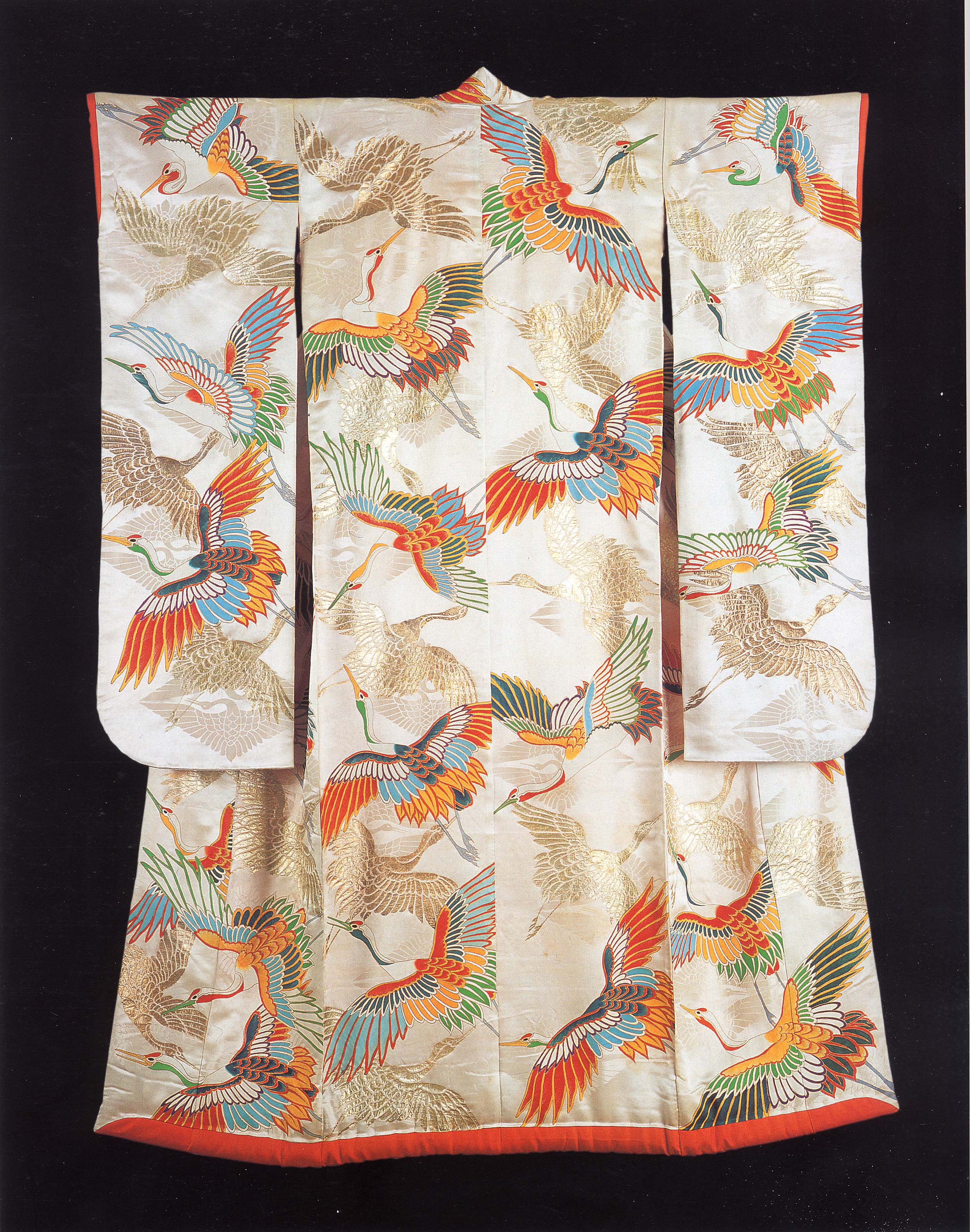 Outer Kimono for a Woman (Uchikake). Satin silk with applied gold. Depicts cranes. From the Khalili Collection of Japanese Kimono. Would have been worn by a woman on her wedding day.